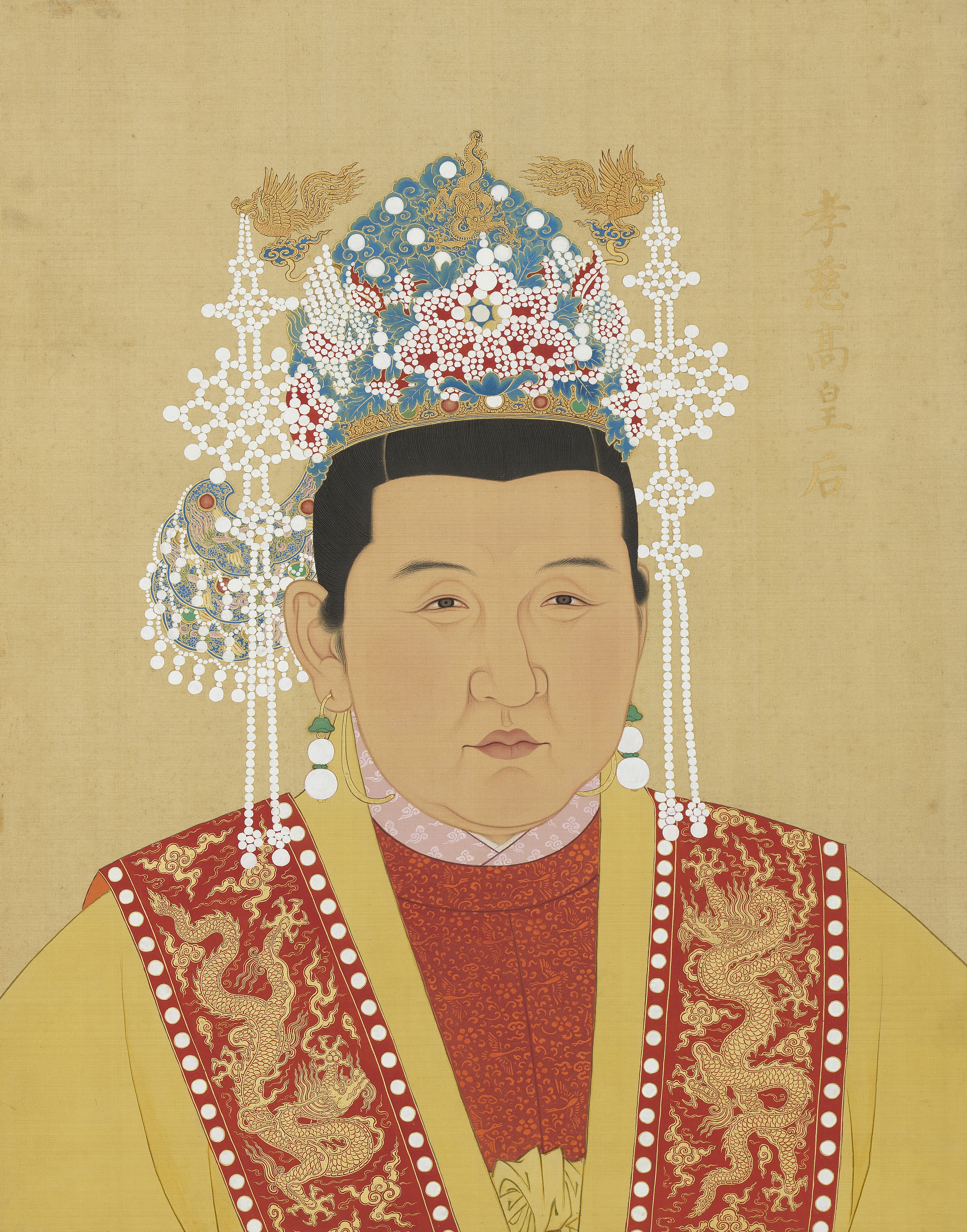 Ming Taizu's Empress